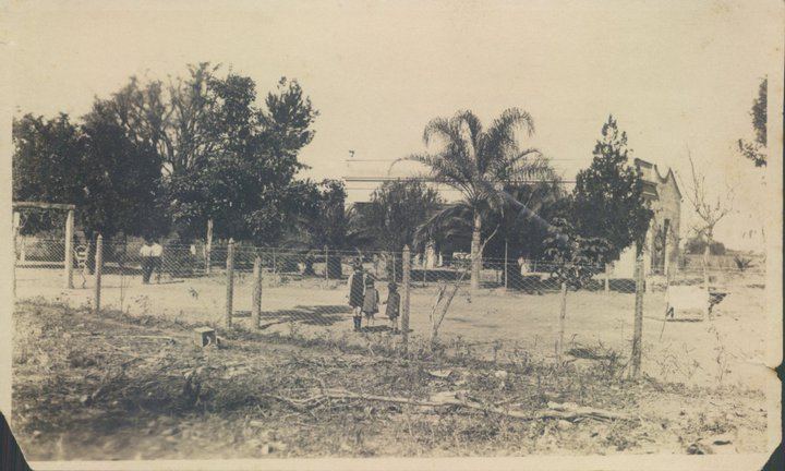 Casco de la finca "Ollantay", propiedad del gobernador Miguel Mario Campero en Santa Rosa de Leales. Leales, Tucumán. Años 1910.